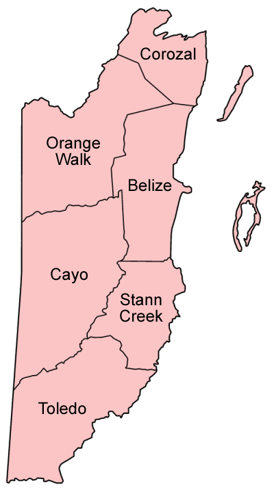 Map of the districts of Belize in English (local language). Made by User:Golbez.